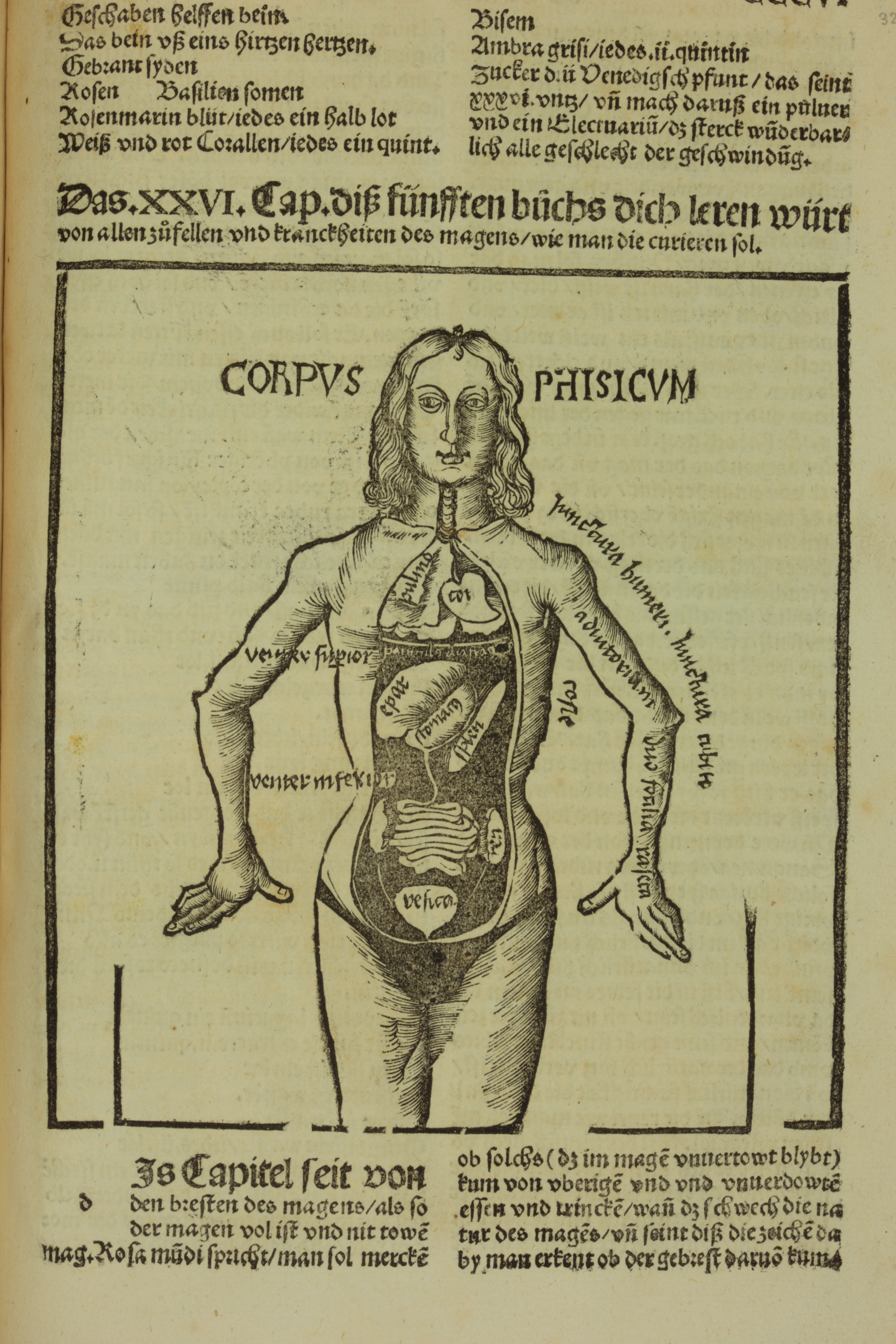 Page 306, Corpus Phisicum, showing the body and the location of the internal organs, from Hieronymus Brunschwig’s Liber de arte Distillandi de Compositis (Strassburg, 1512)